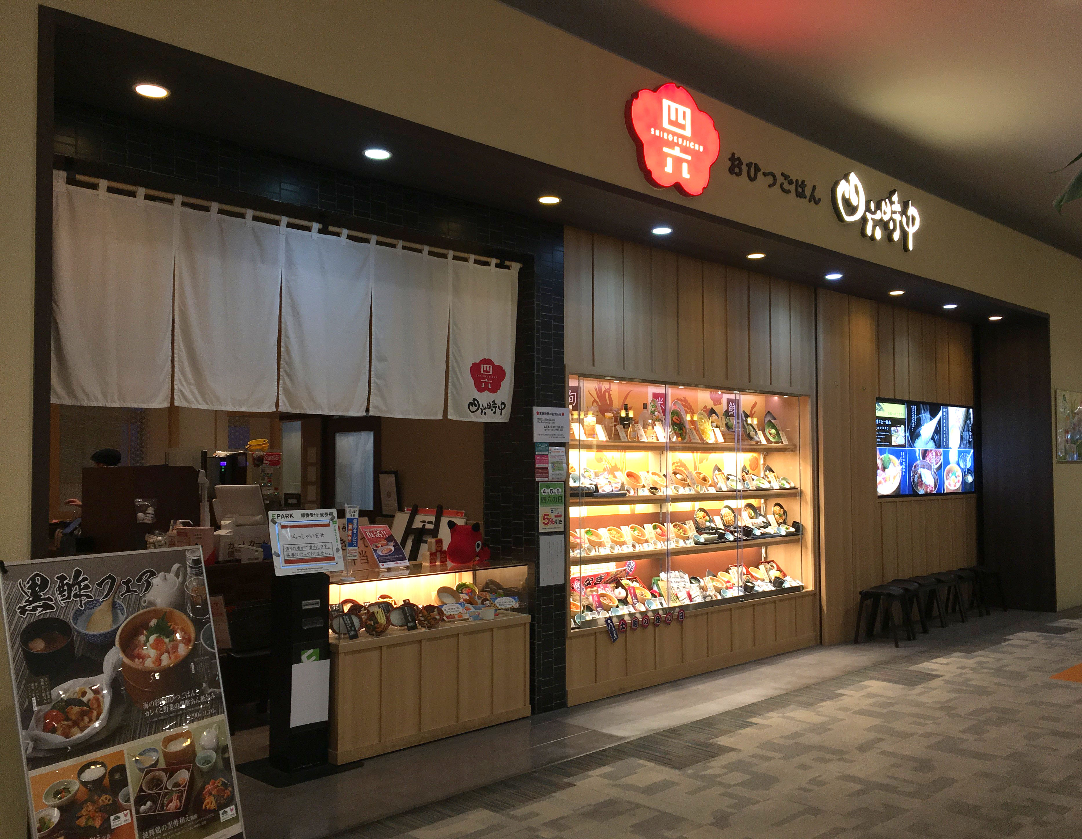 Shirokujichu (Japanese Shabu-shabu restaurant) Utsunomiya Bell Mall branch (Utunomiya, Japan)